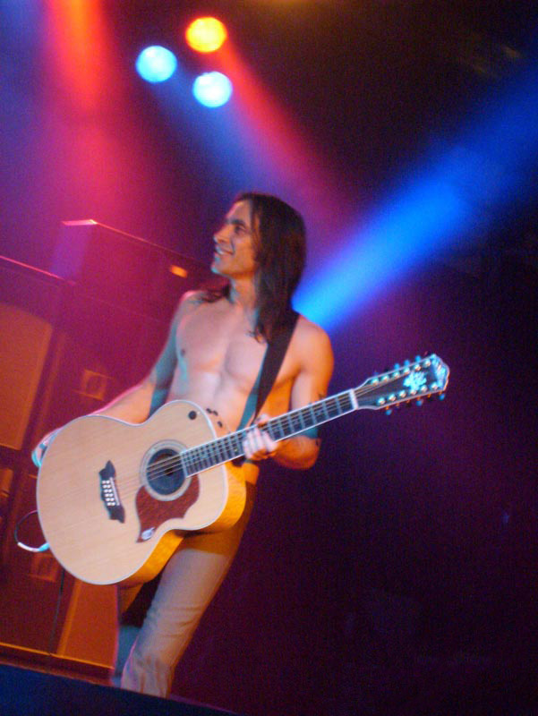 Nuno Bettencourt - Extreme, Live in Birmingham 2008